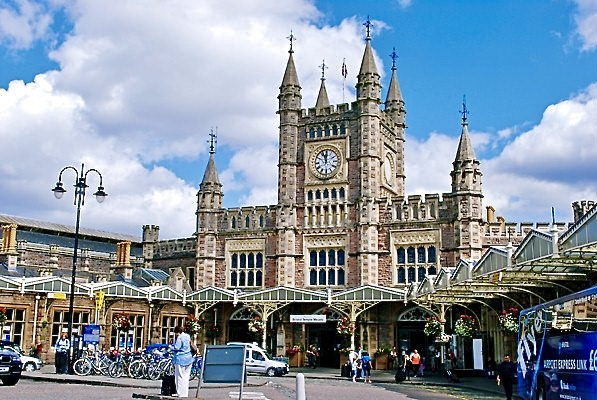 Bristol Temple Meads joint station, 08/09.